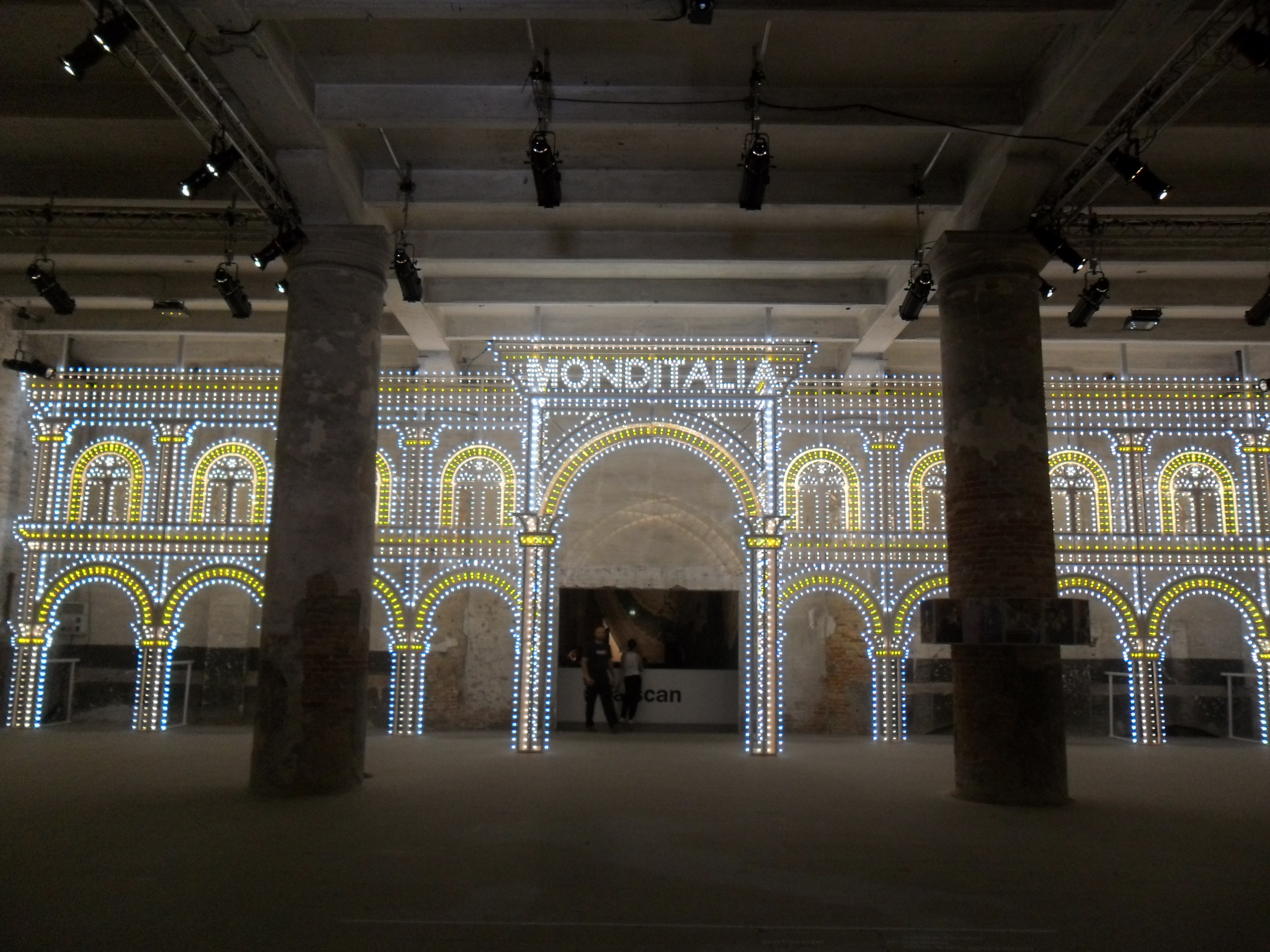 14th Venice Architecture Biennale Monditalia